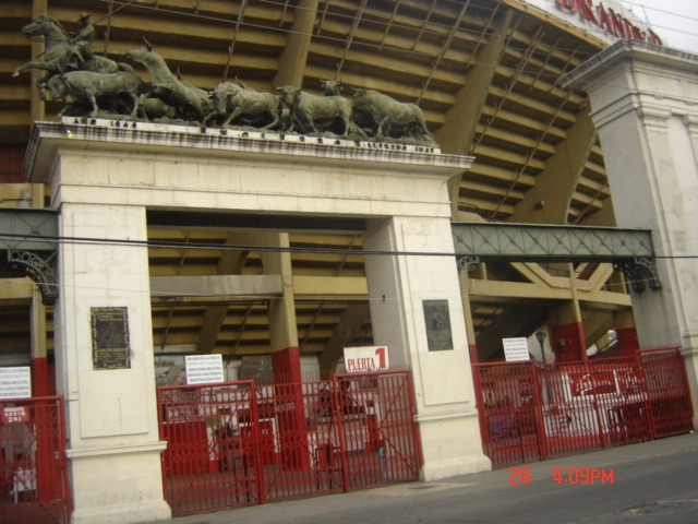 Image of entrance to the Plaza de toros de Mexico bullring, Mexico city